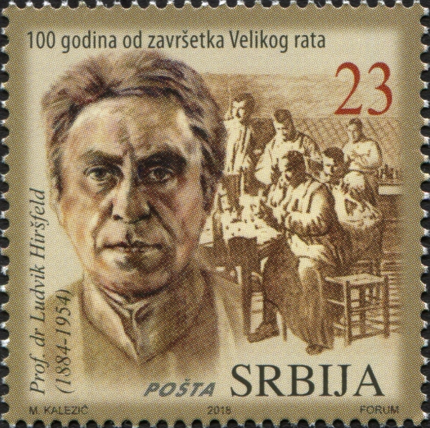 100 Years since the end of the Great War - Great doctors of the Great War